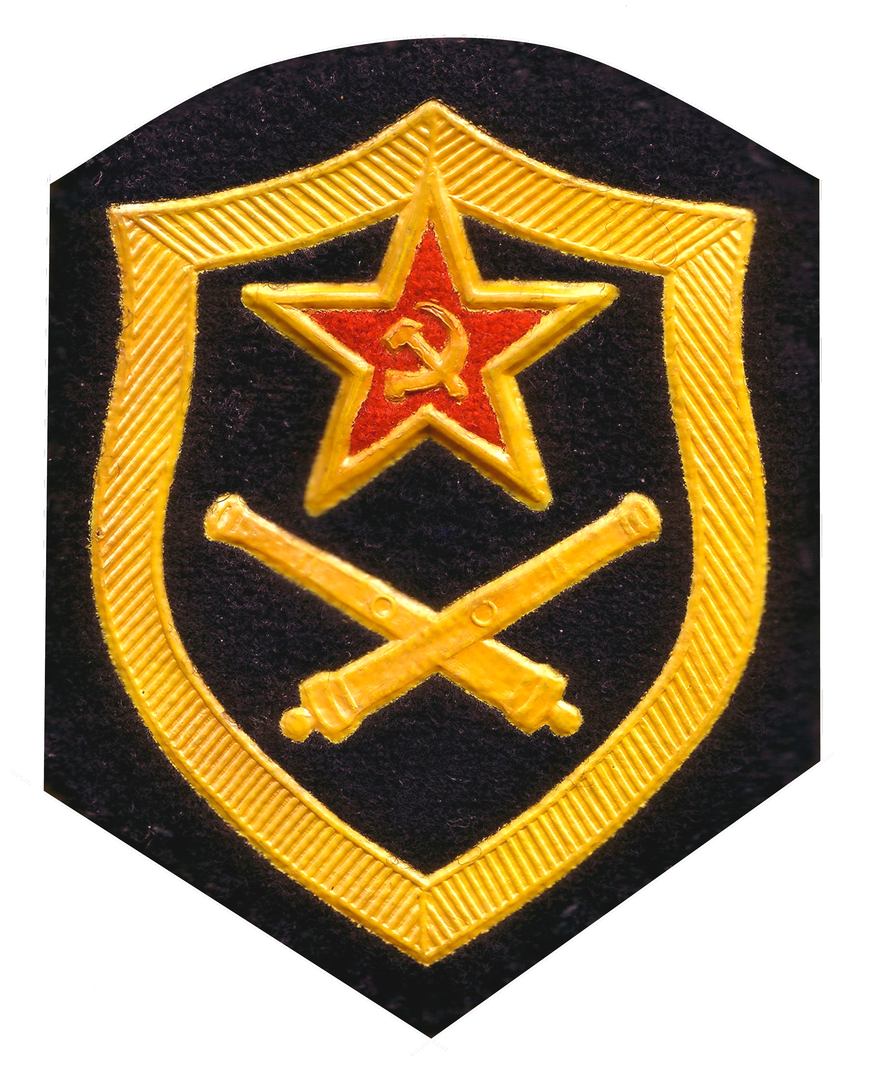 Emblem of the soviet armed forces 1960 to 1991, Soviet Army (military branches, service branches or armed services), sleeve badge (appliquéd) right hand upper arm (dress uniform/ parade uniform) to be used for the ranks OR1 to 8, and WO1 to 2, here: – “Rocket Corps (Troops) and Artillery”, with Army Air defence troops, Rocket corps and Artillery of the USSR Air Defence corps, Strategic Rocket Corps, and Cosmic rocket defence”, design 1985.